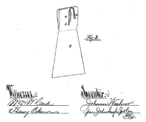 Early illustration, perhaps the first, from a patent of a pre-tied tie, now known as a clip-on, issued to Johann Waehner of New York, NY in 1875, U.S. Patent 170651. See Section on Pre-Tied/Clip-on Ties, in the Nectie article (